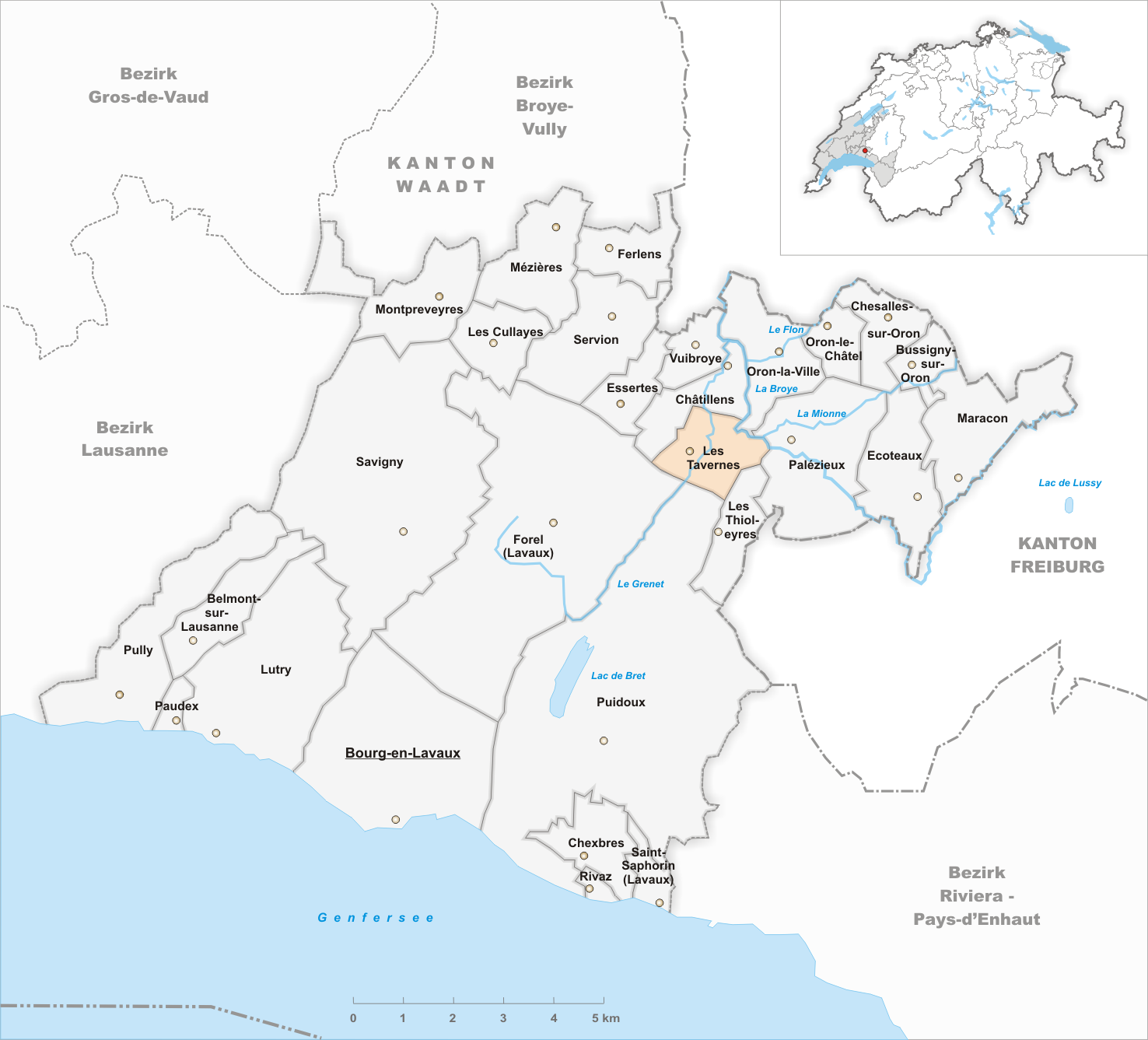 Municipality Les Tavernes